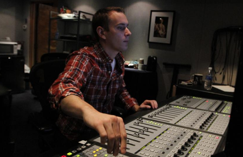 Axident in studio.